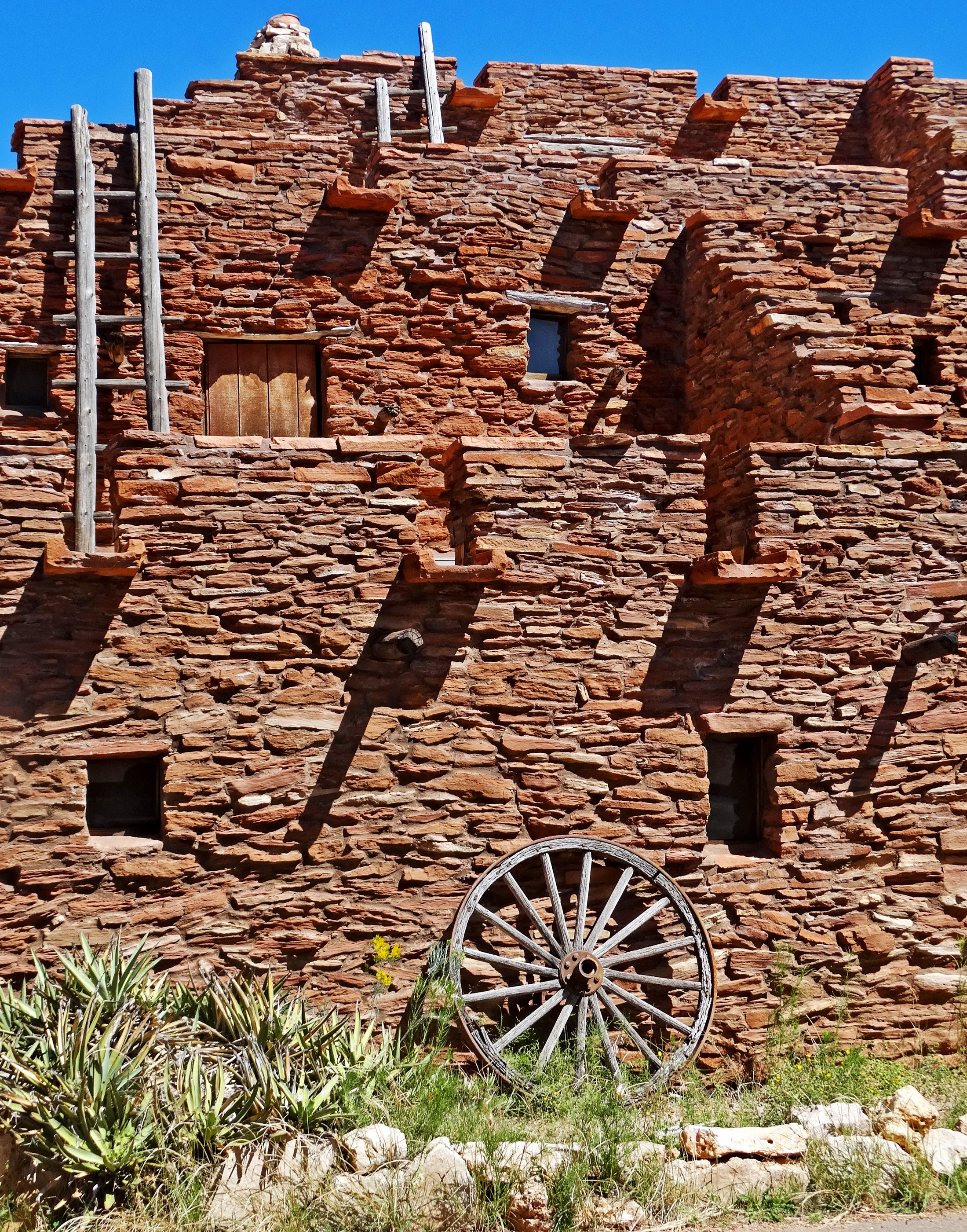 (1 in a multiple picture album) This is another of architect Mary Colter's creations on the south rim of the Grand Canyon. Any national park needs a gift store but she built one that looks as if the original inhabitants of the area had erected it many years ago.